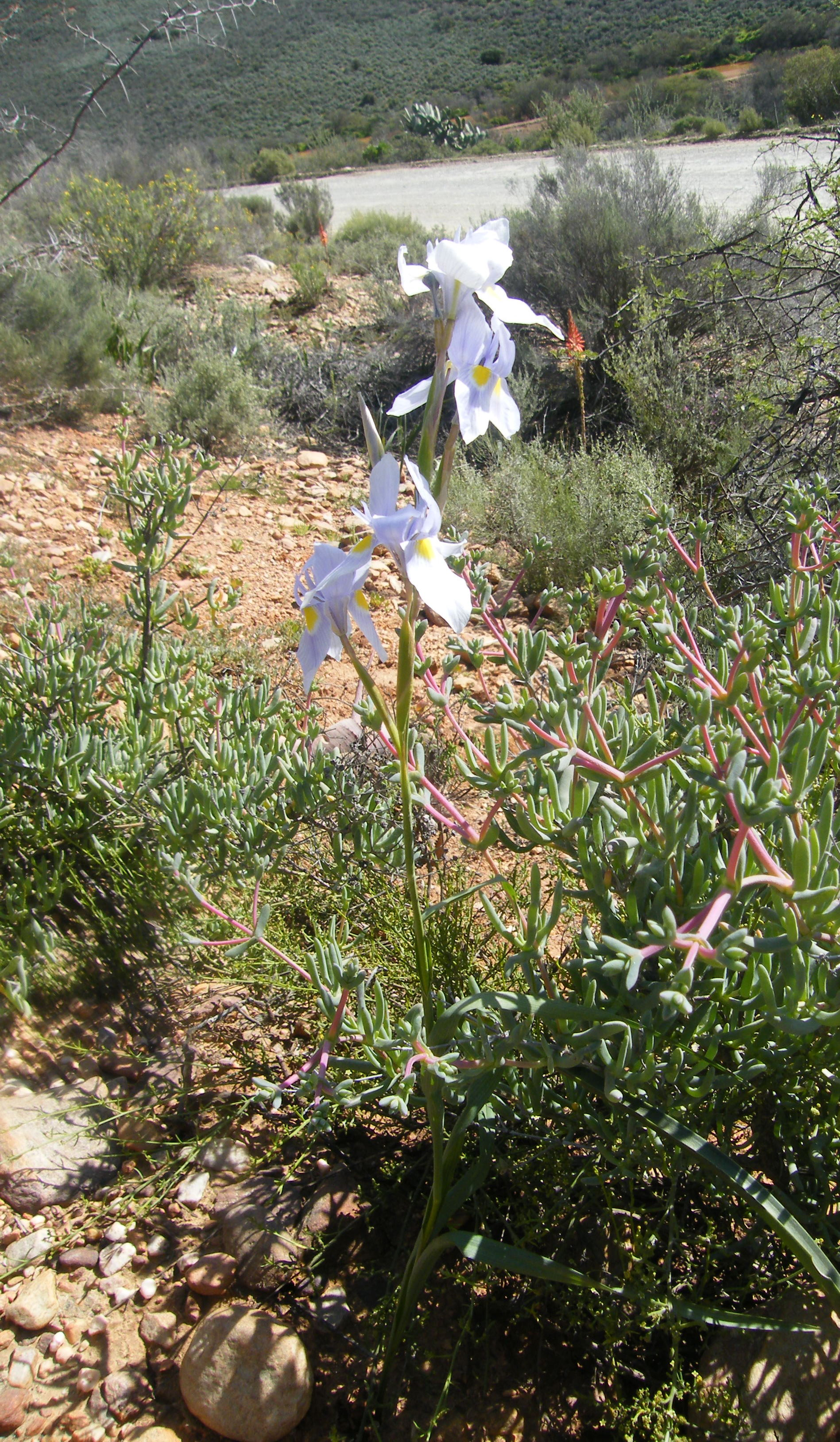 English